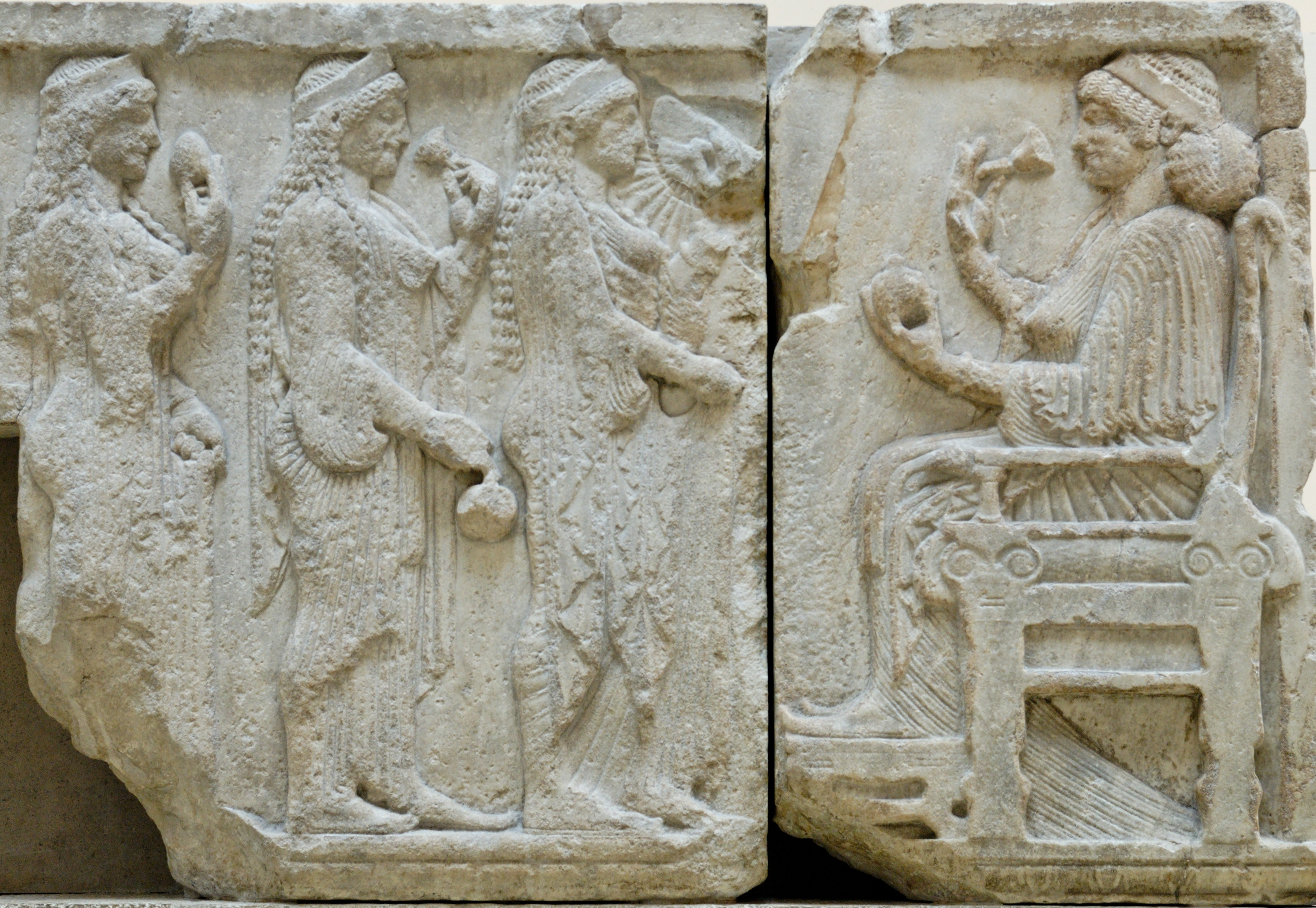 Three girls approach a seated holding a pomegranate and a flower. Panel from the west side of Kybernis' tomb, acropolis of Xanthos in Lycia, ca. 480 BC.